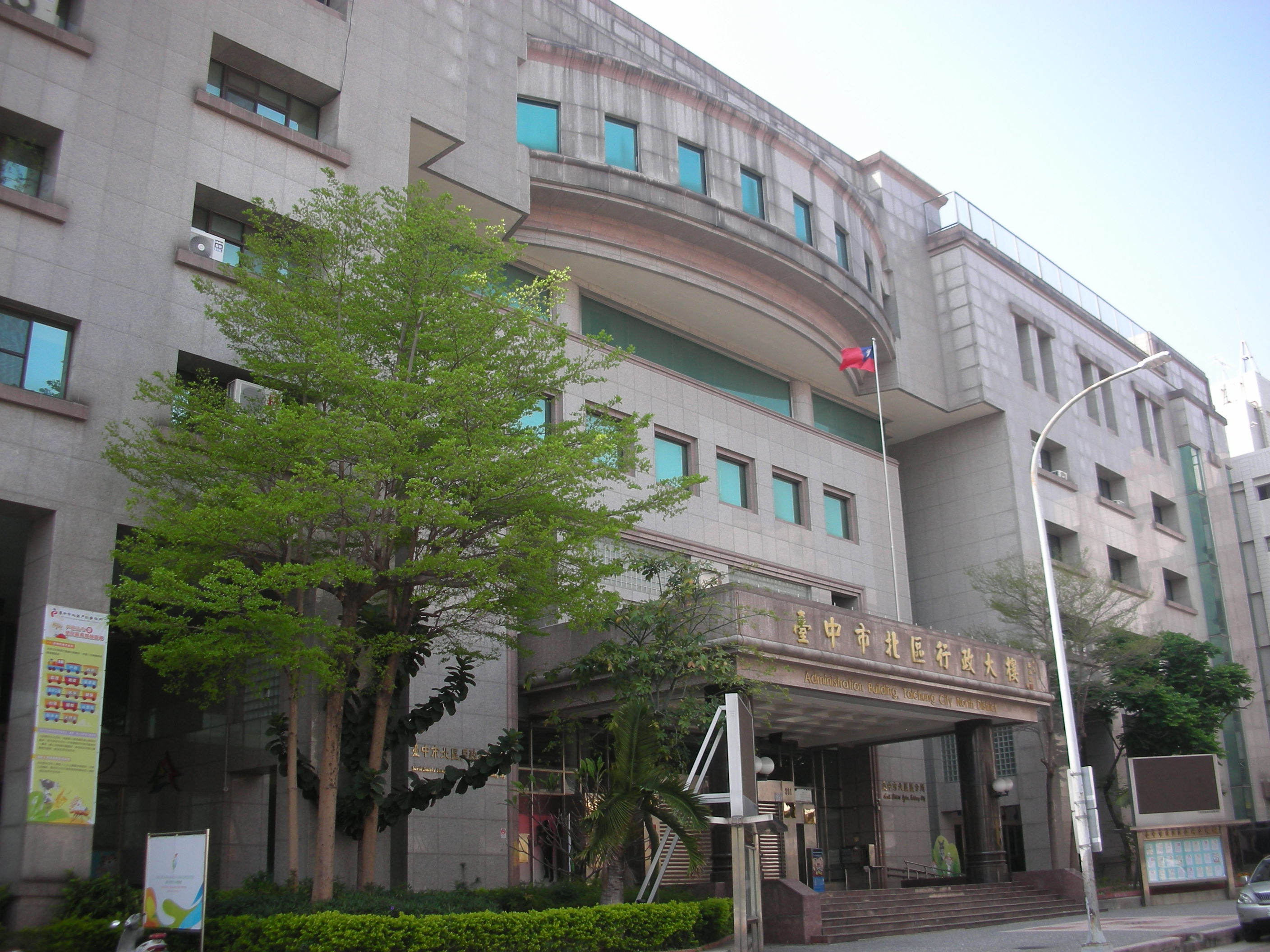 North District Administration Building, Taichung City.